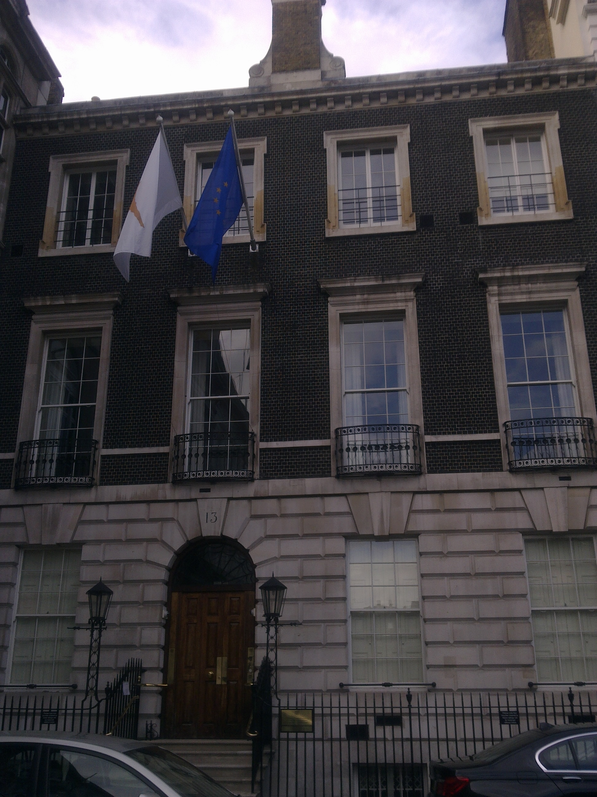 High Commission of Cyprus in London 1